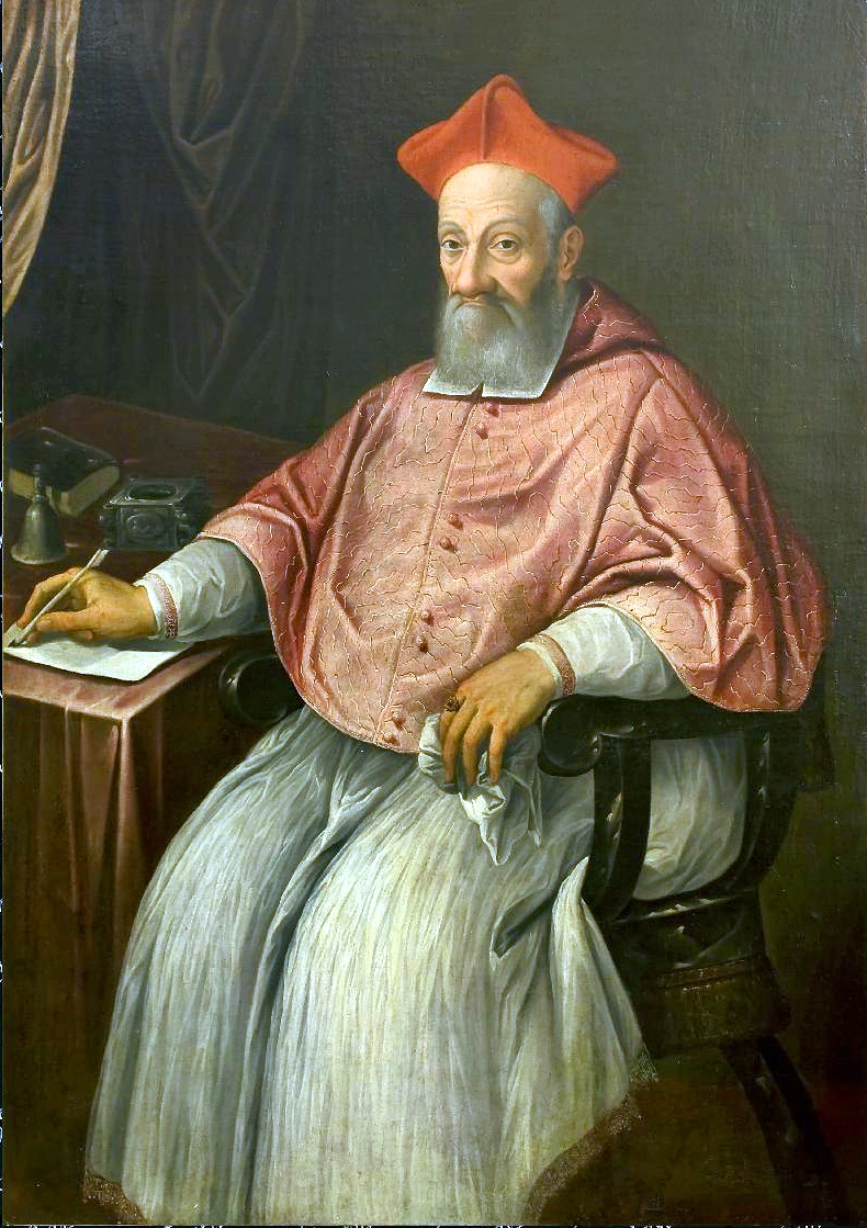 Kardinal Guglielmo Sirleto (1514-1585)